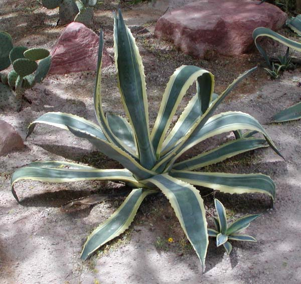 Photo of Agave americana aureo-marginata at Desert Demonstration Garden in Las Vegas, Nevada